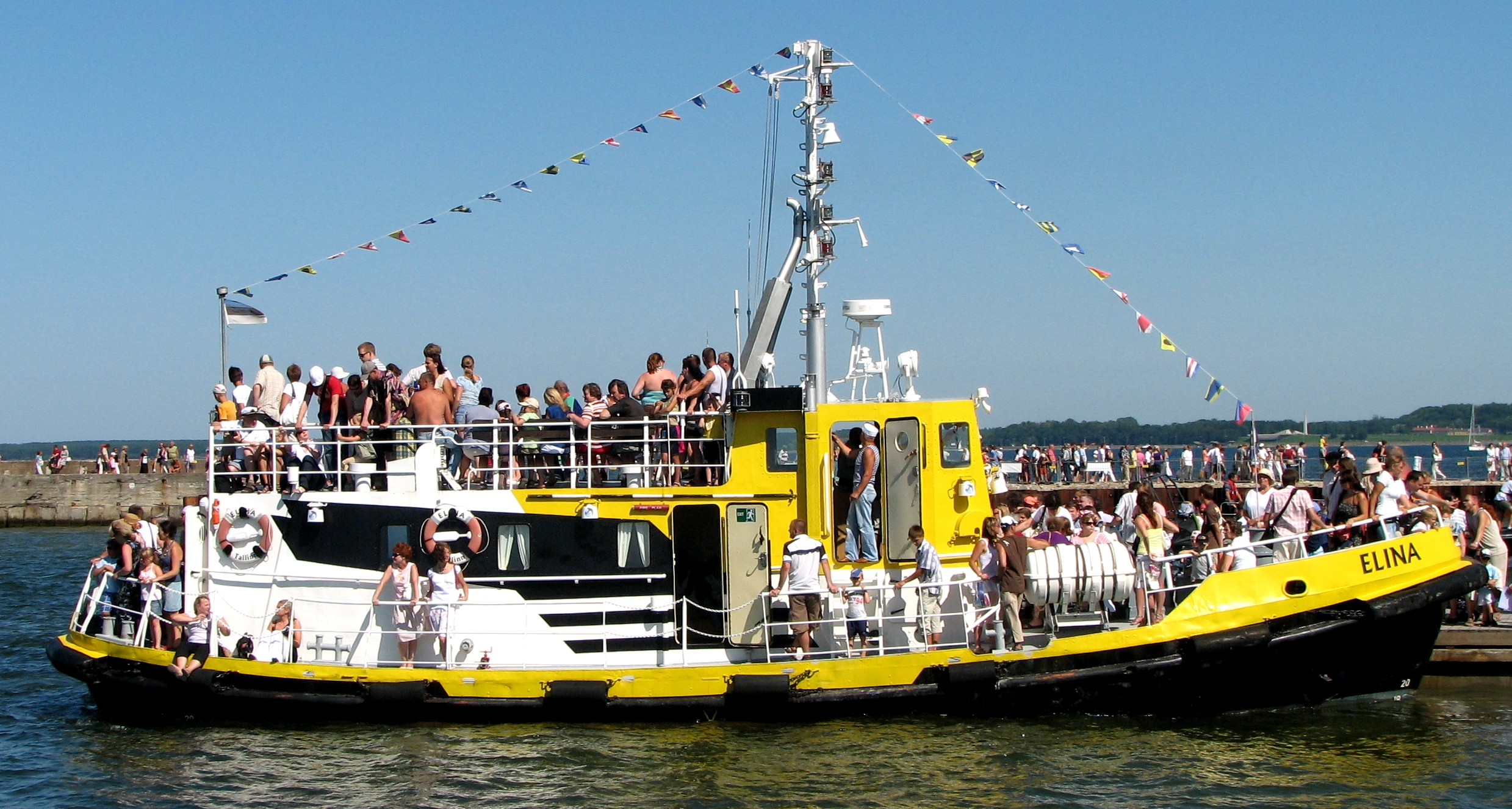 Passenger ship Elina was built in 1953